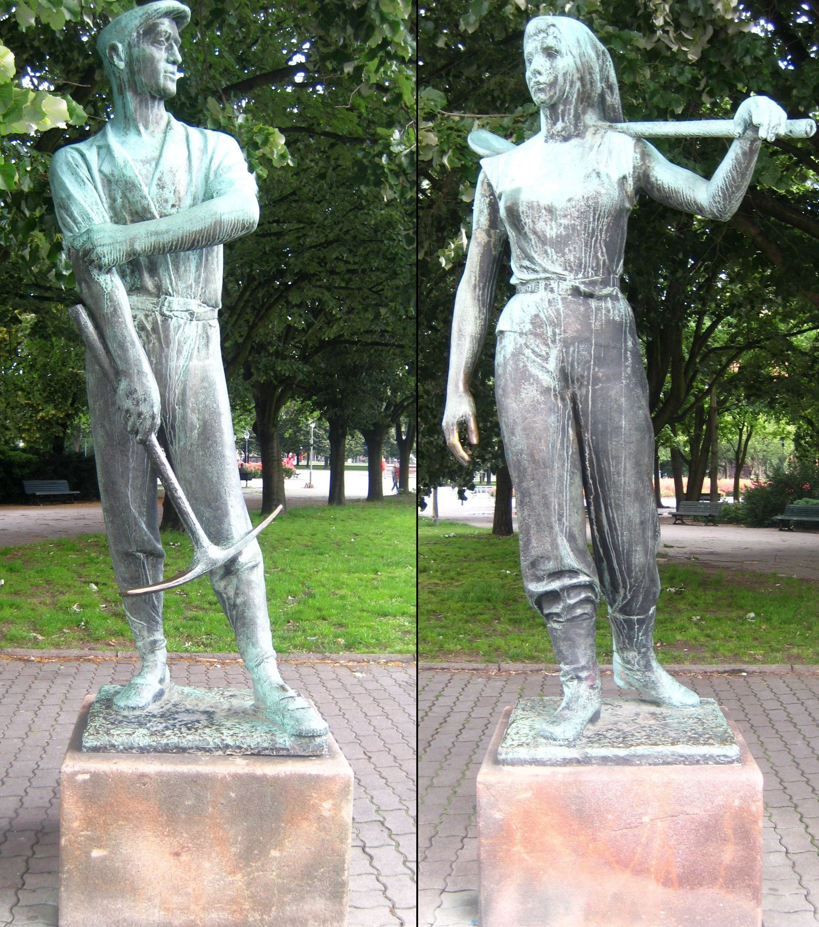 The sculptures "Male Reconstruction Helper" and "Female Reconstruction Helper" (original title: "Away with the rubble and let's build something new") by Fritz Cremer, 1953/1954. As reminders of the reconstruction work in post-WWII East Berlin, the two sculptures stand near Rotes Rathaus (Red Town Hall) in Berlin-Mitte, about 100 meters apart from each other.